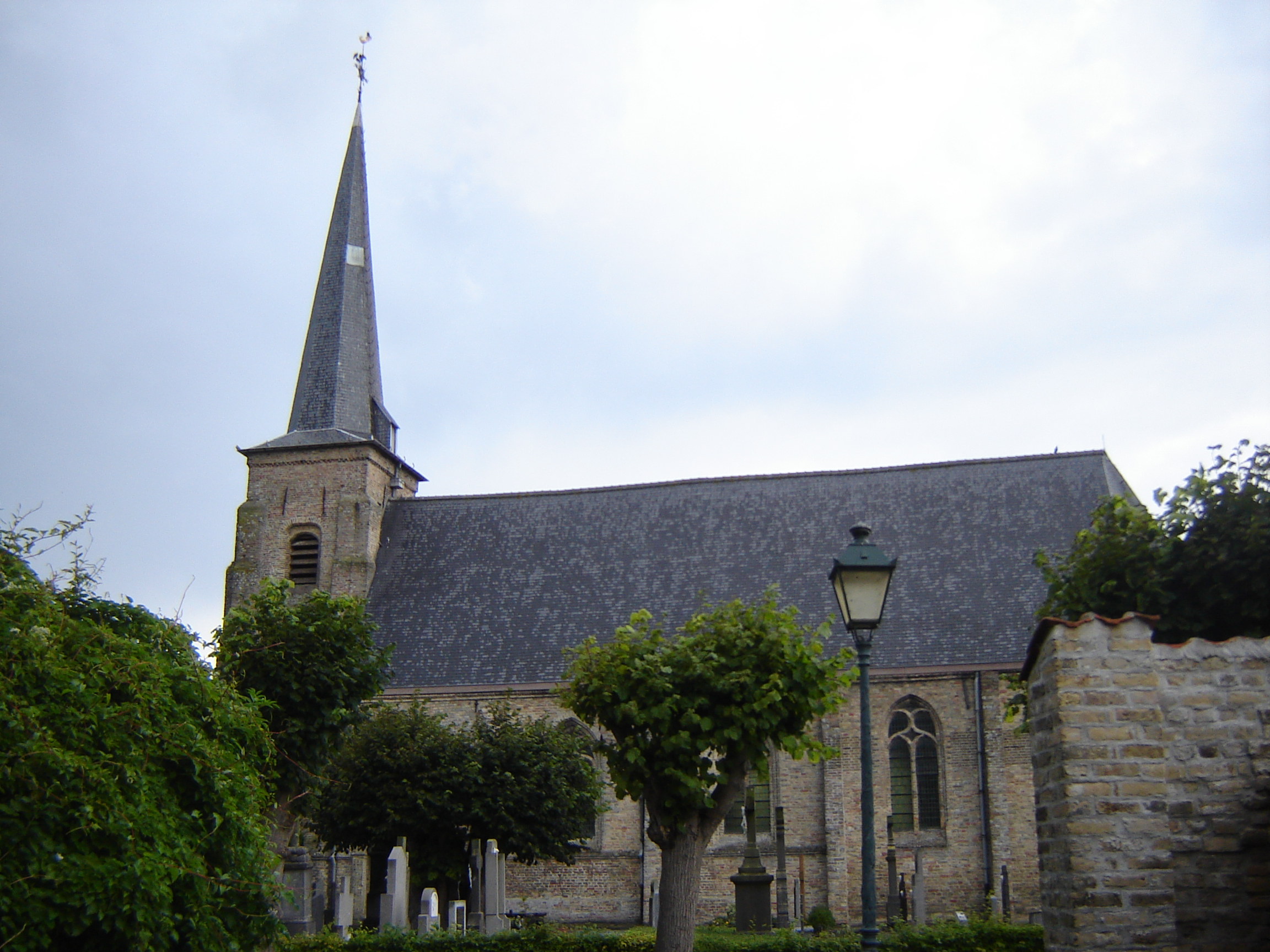 Church of Saint Michael in Avekapelle. Avekapelle, Veurne, West Flanders, Belgium